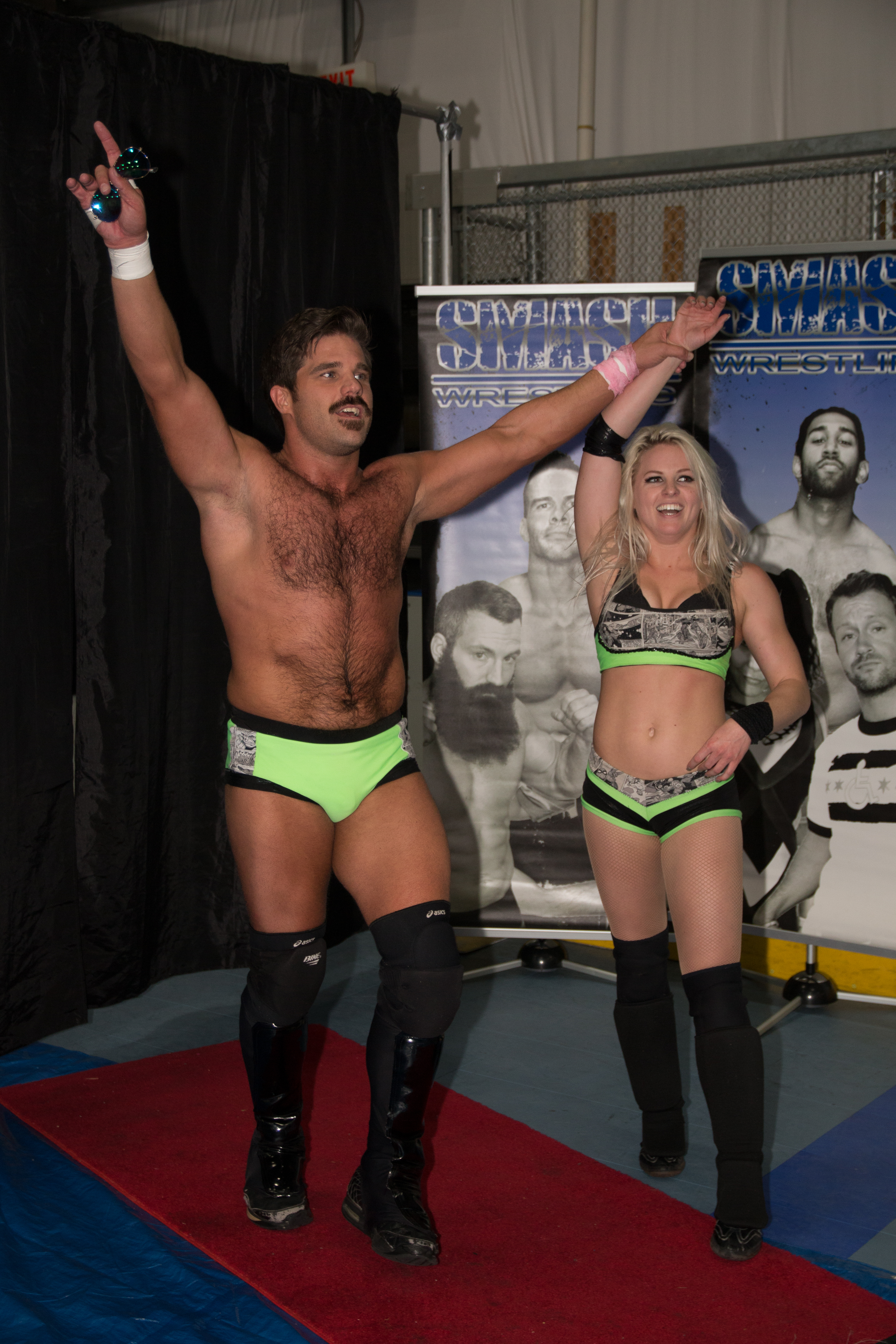 Independent wrestlers Joey Ryan (left) & Candice LeRae at Smash Wrestling's Challenge Accepted show